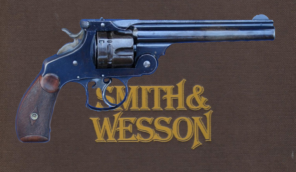 S&W 44 DA Frontier